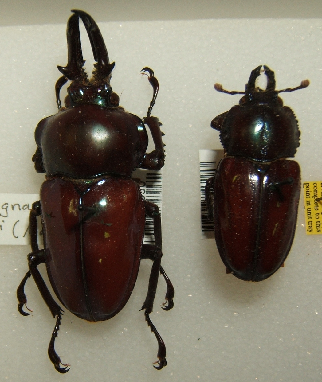 Phalacrognathus muelleri adult taken by Shawn Hanrahan at the Texas A&M University Insect Collection in College Station, Texas.